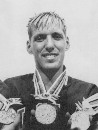 LG18 1964 Wire Photo DILLEY GRAEF BENNETT Tokyo OLYMPIC MEDALISTS US Swimmers